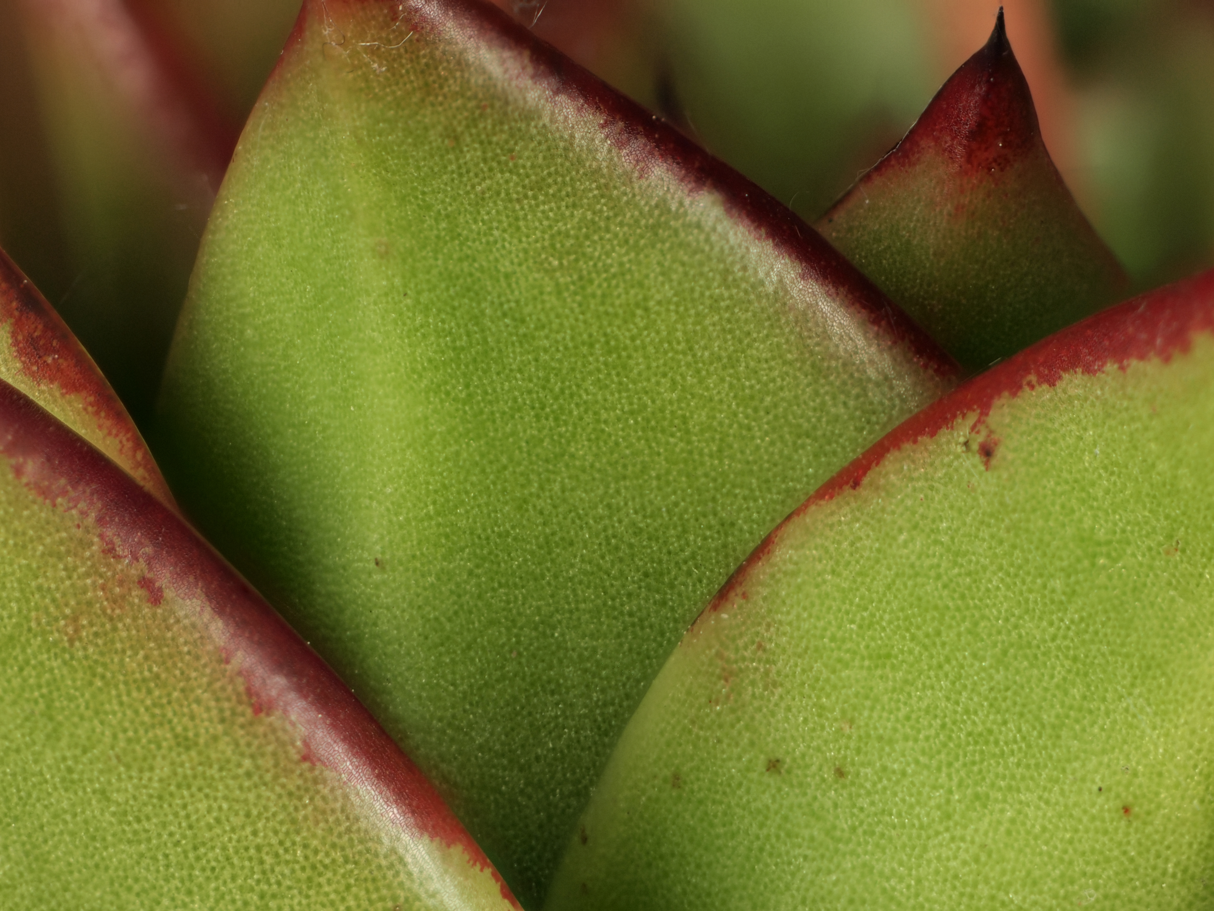 Echeveria agavoides—crested molded wax agave. Continuing a series of photomacrography experiments. Photographed with Olympus Pen E-PL1 with Canon 100 mm FD macro lens. Focus Stacking of 12 images with Zerene Stacker software.